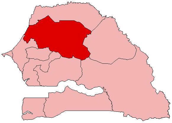 Map of Louga region, Senegal.